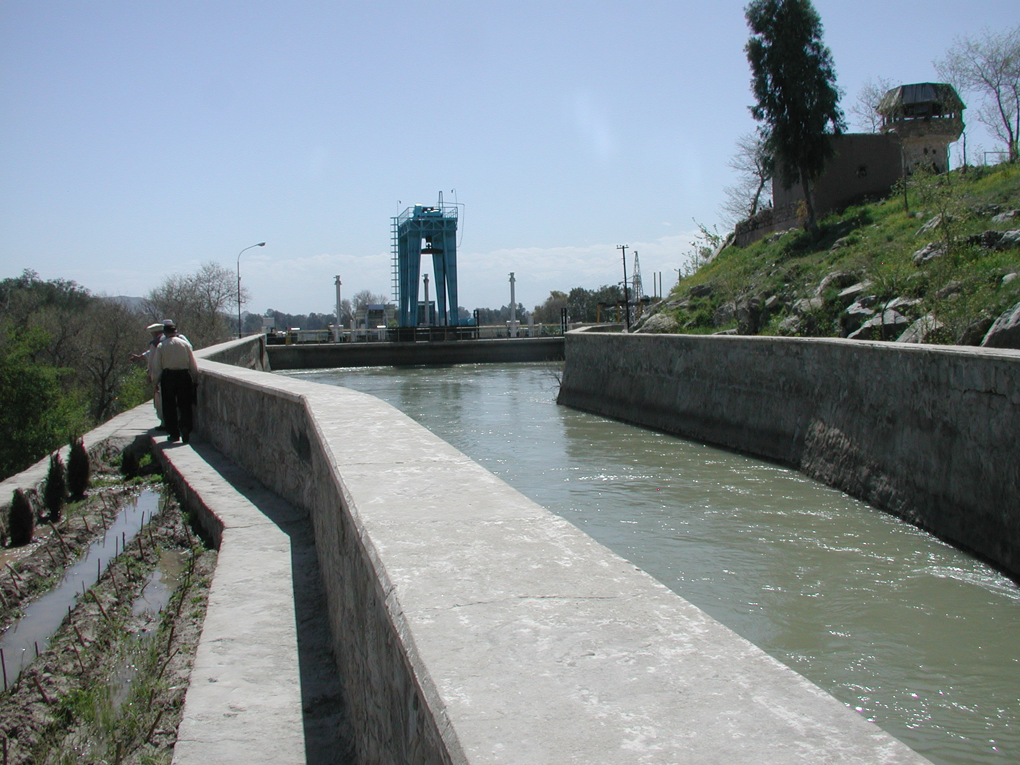 Afghanistan men work by the canal outside the Darunta Hydroelectric Power Plant, currently being rehabilitated, upgraded, and modernized by USAID to ensure reliable, long-term power for the people of eastern Afghanistan.